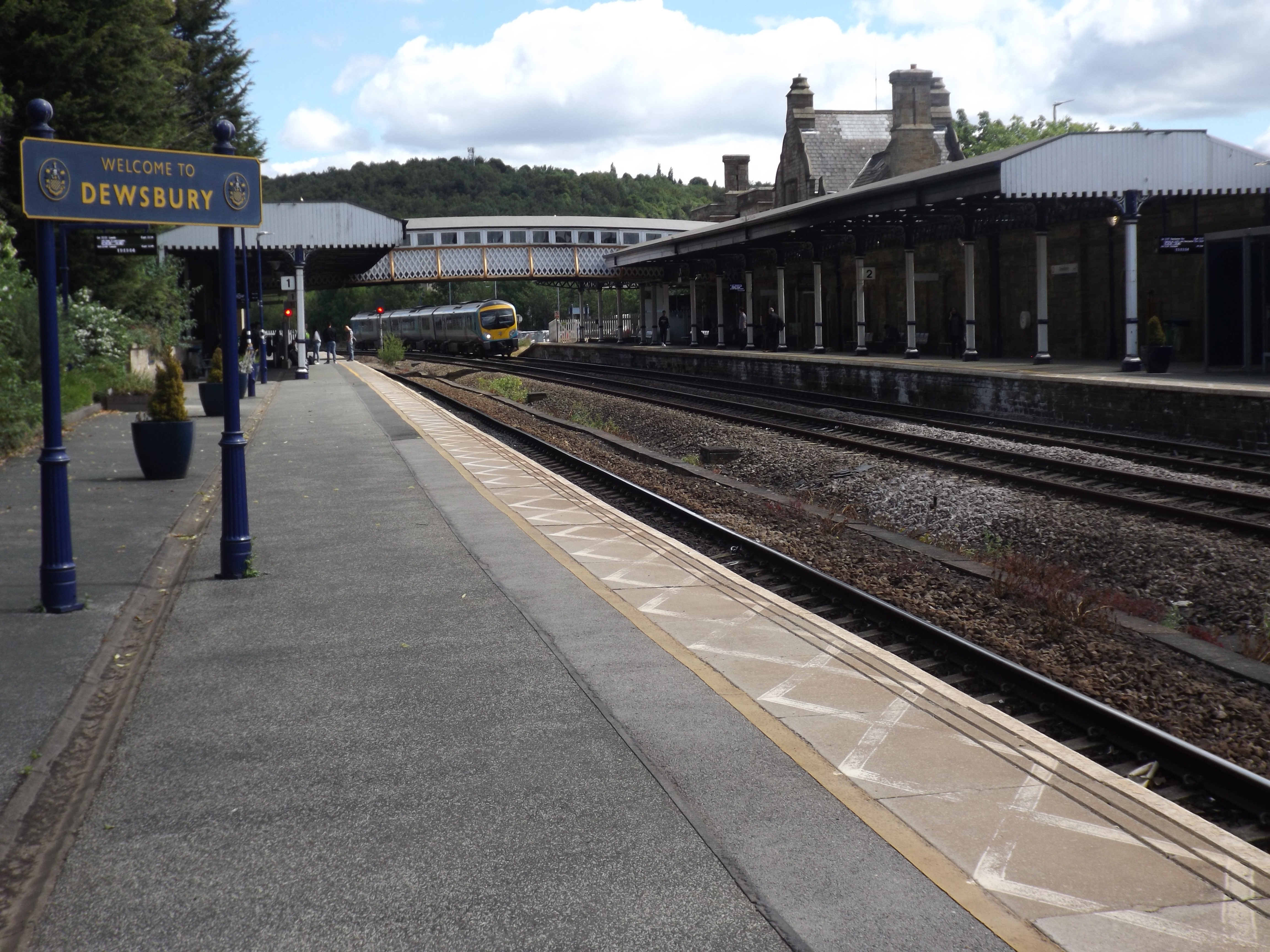 Dewsbury railway Station from platform 1.